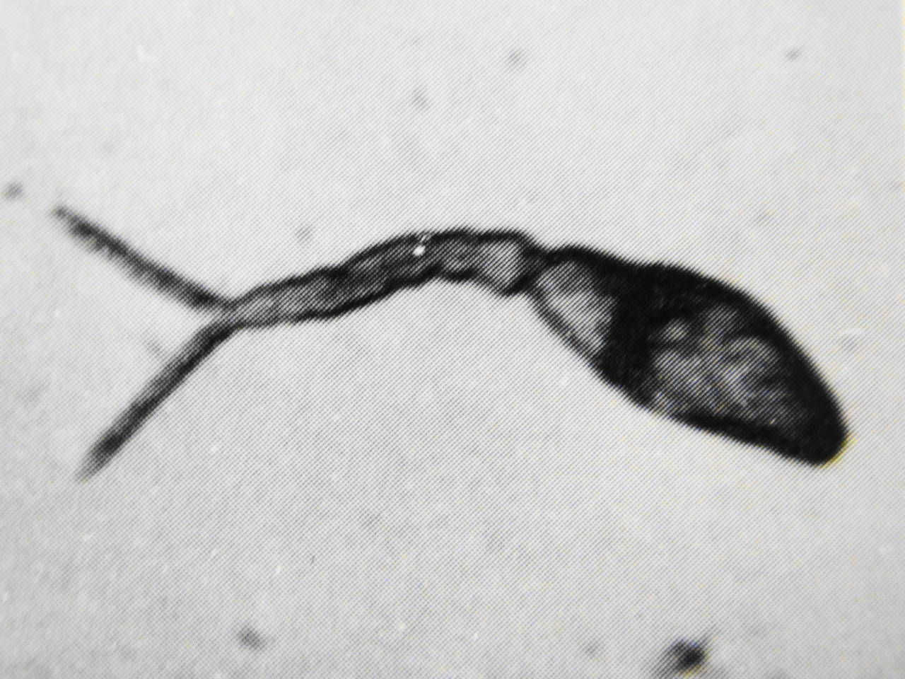 Schistosoma Japonicum cercaria.Japanese book "Struggle with endemic disease (Schistosoma japonicum in Yamanashi Prefecture) , eradication of endemic issue Yamanashi Cooperation Committee" published by Heiwa-purintosha.